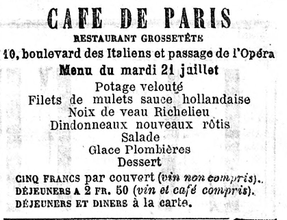 Extract of Le Figaro, 21 July 1868: menu from the Café de Paris.